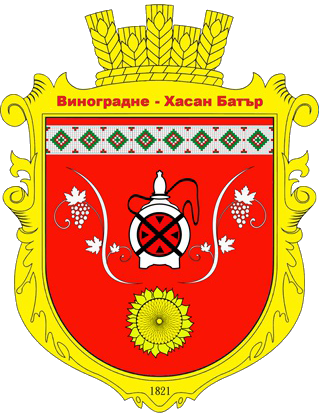 The coat of arms of the village of Vynohradne (ex. Hasan-Batâr), Bolhrad Raion, Odessa Oblast, Ukraine